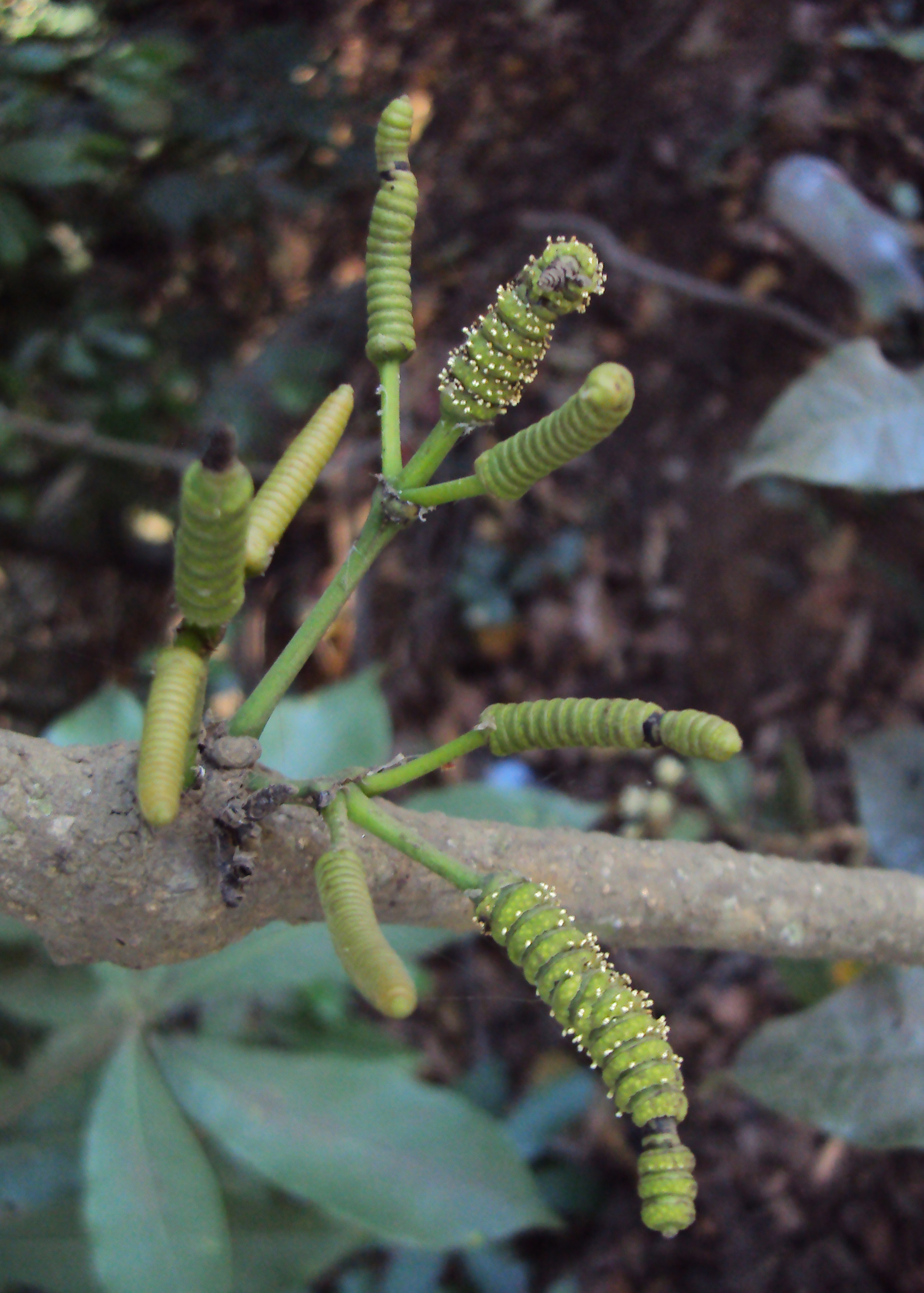 Gnetum latifolium var. funiculare Markgr.